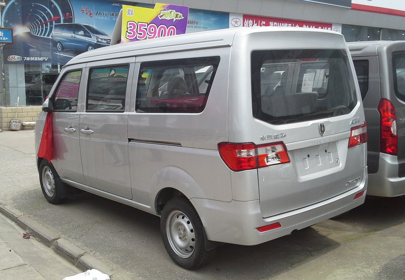 Jinbei Haixing X30 photographed in Wuhan, Hubei province, China.